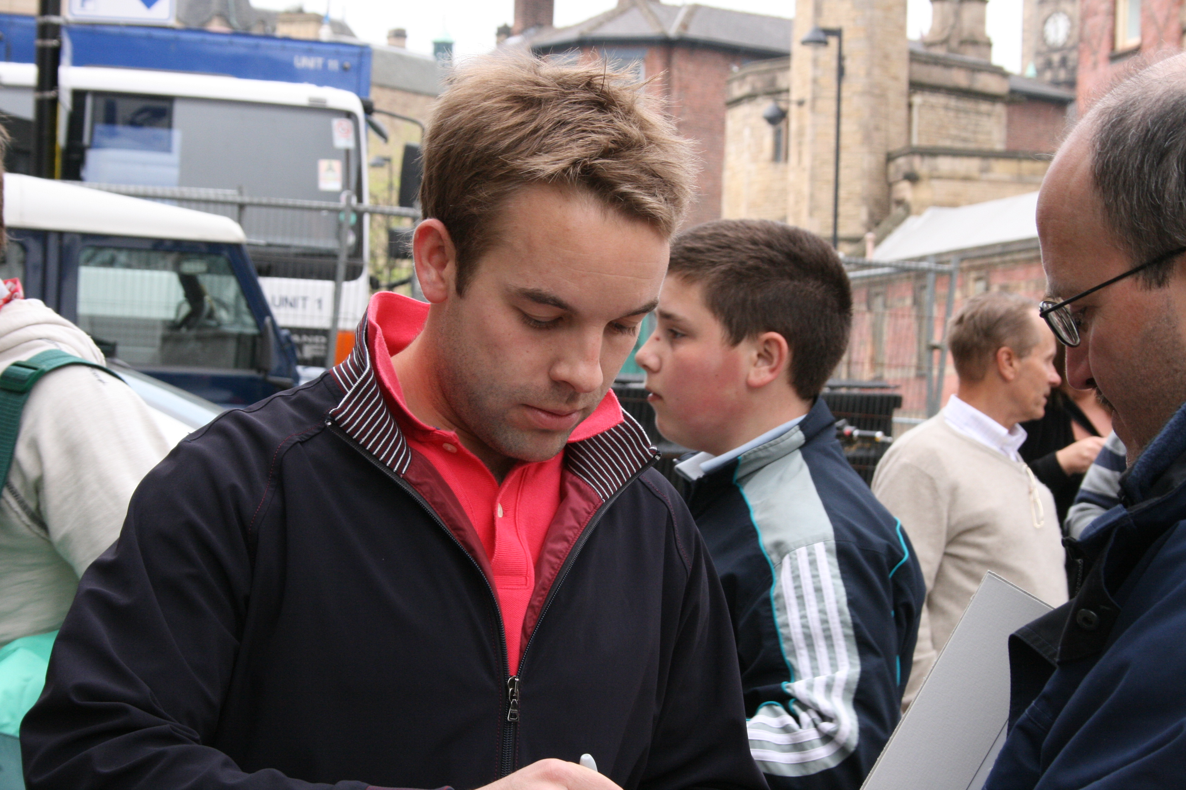 Photograph of Allister Carter signing Autographs outside the Crucible Theatre in Sheffield (May 2007)